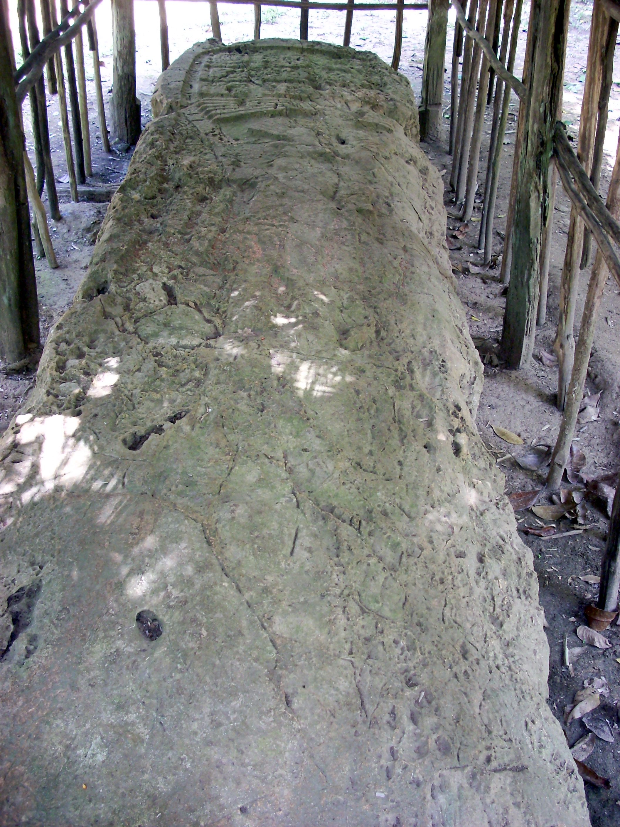 Fallen stela (Stela 5) at El Chal, Peten, Guatemala.